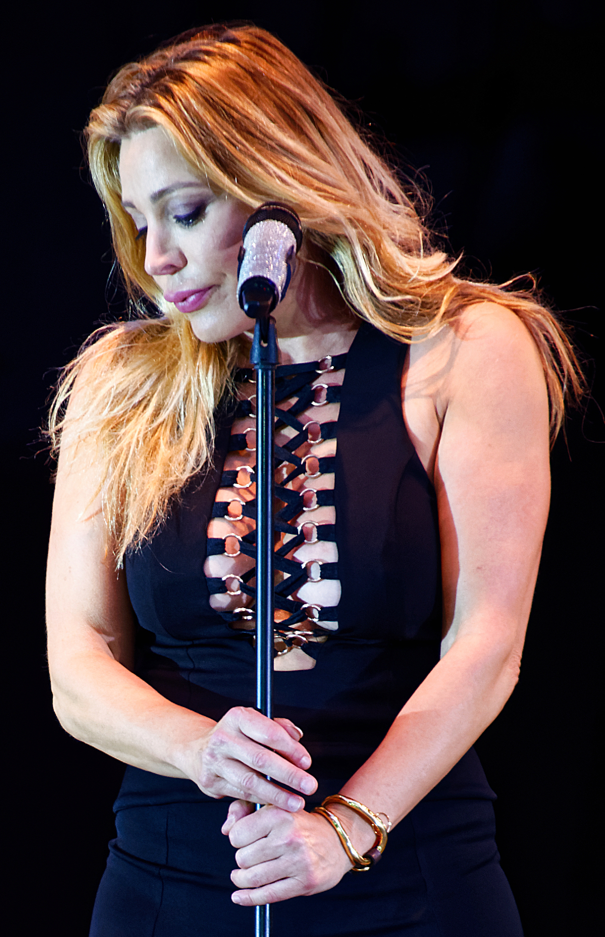 Taylor Dayne at Concerts on the Green